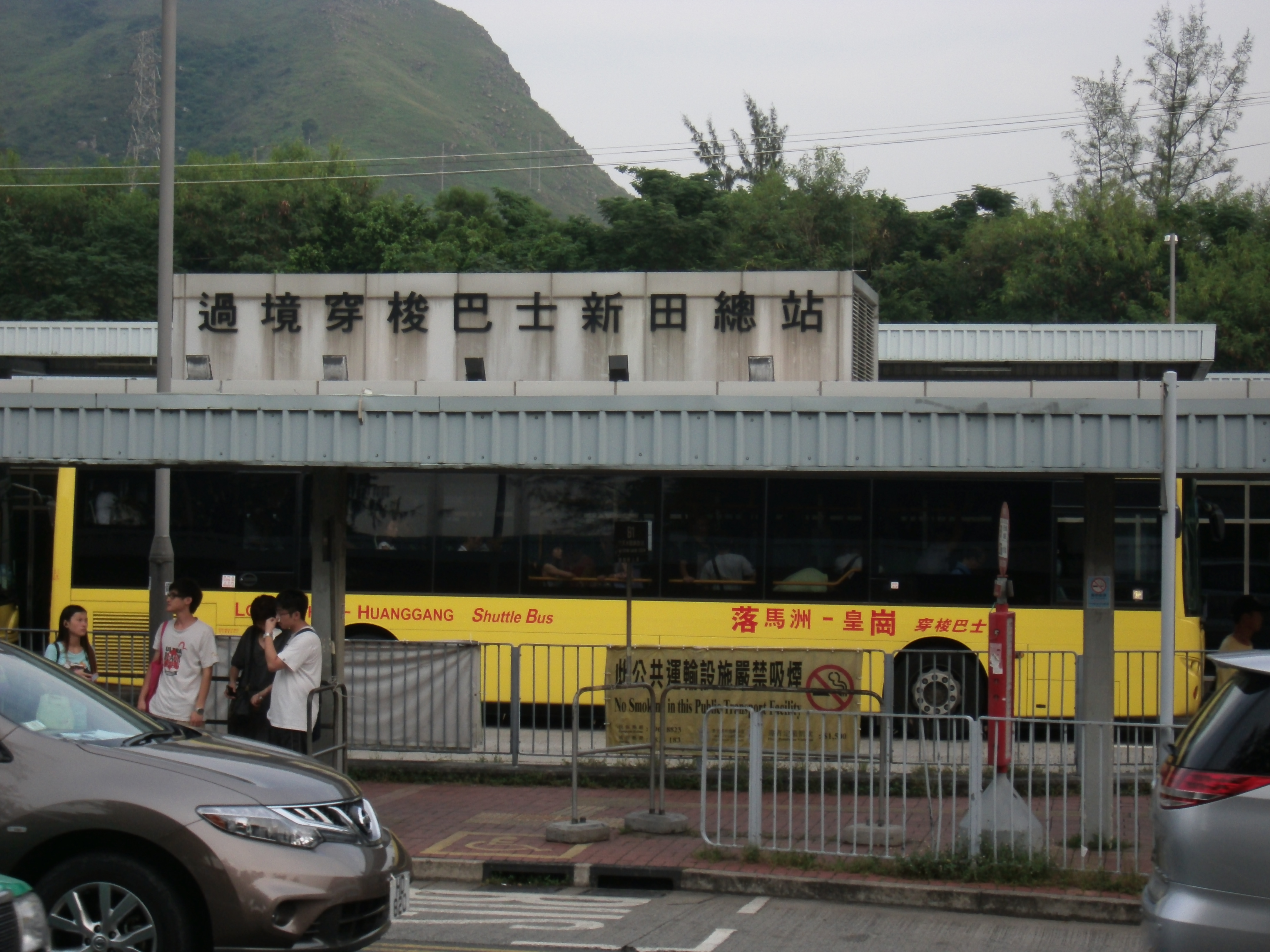 san tin cross-border bus station